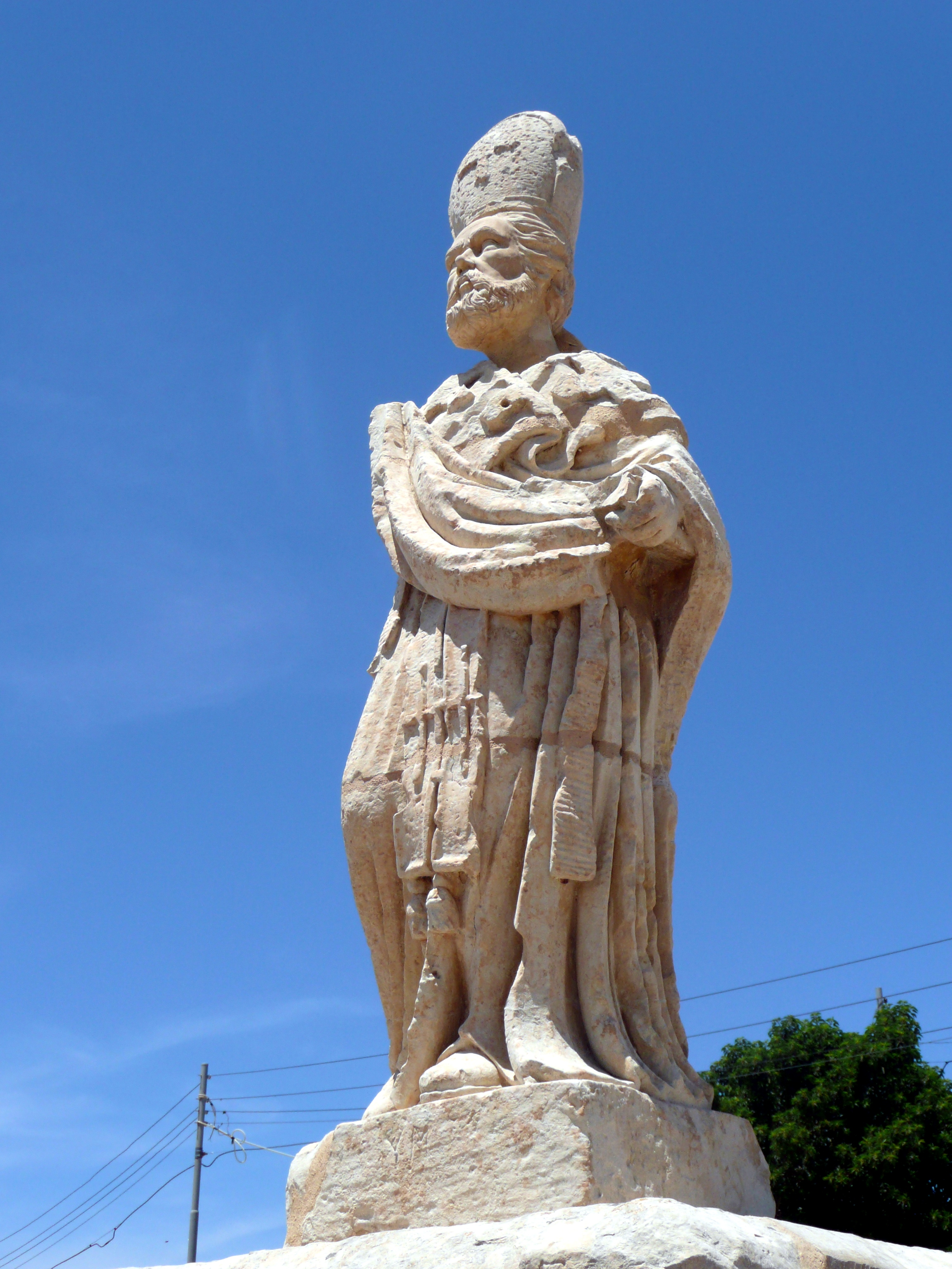 St. Nicolas statue, Mtarfa, Malta